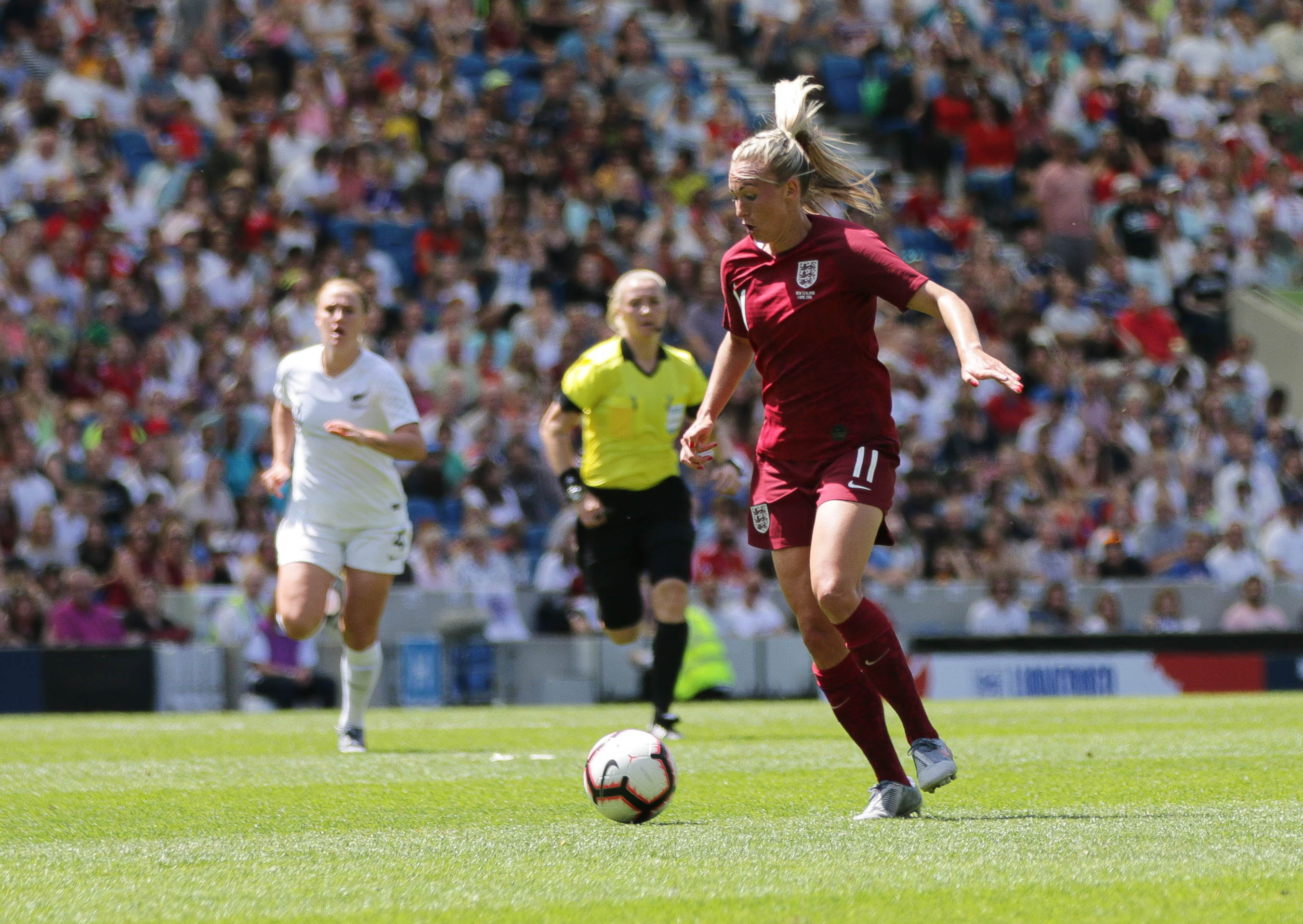 England Women 0 New Zealand Women 1 01 06 2019-539.jpg